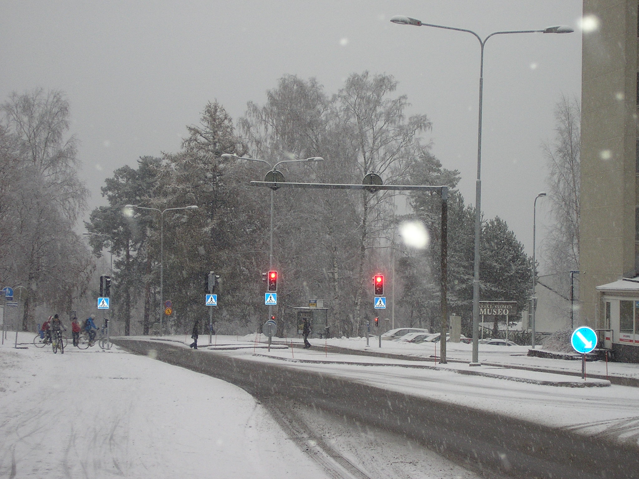 Street Keskussairaalantie in Jyväskylä, Finland